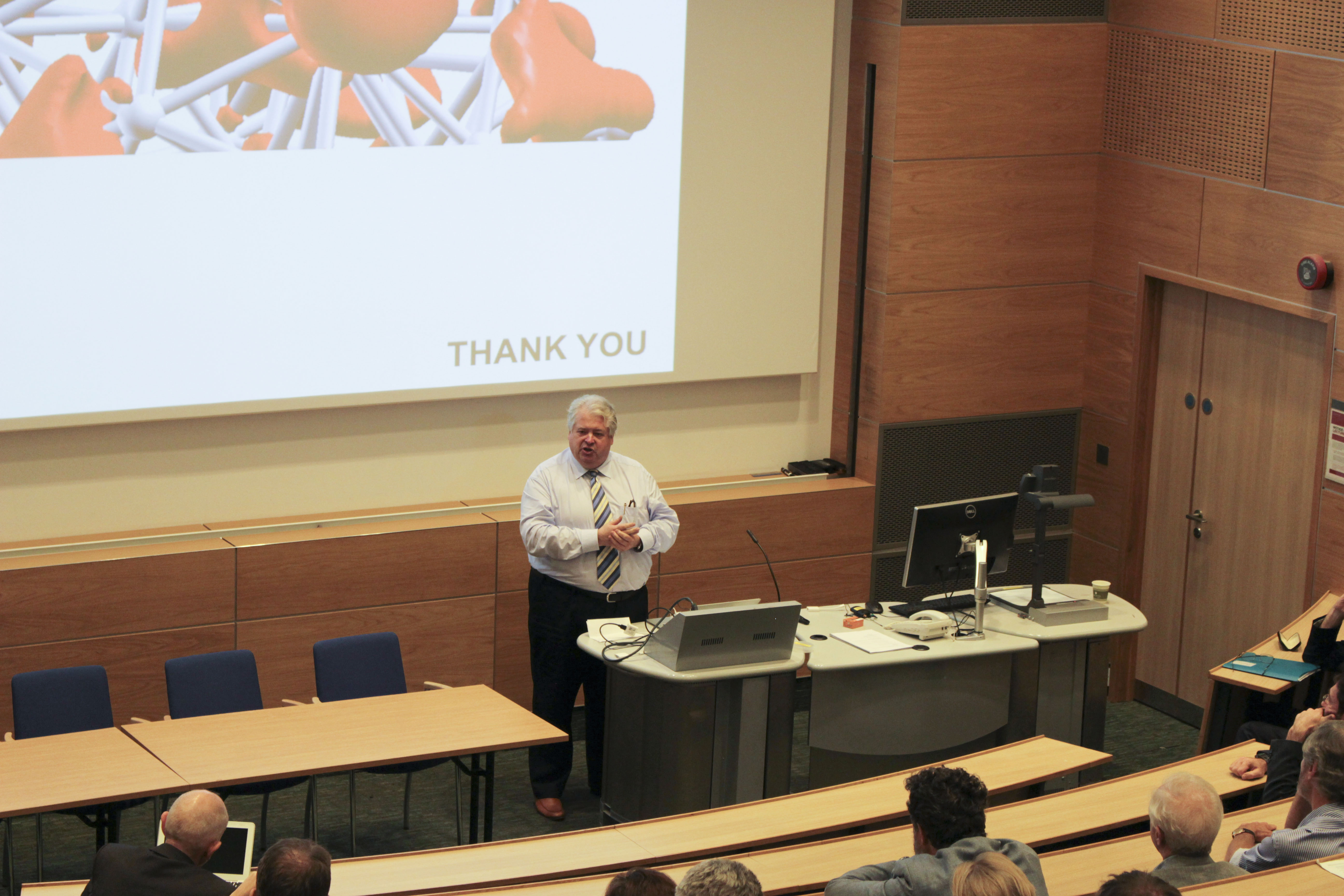 LCN 10th Anniversary - Vice-Provost for Research, UCL